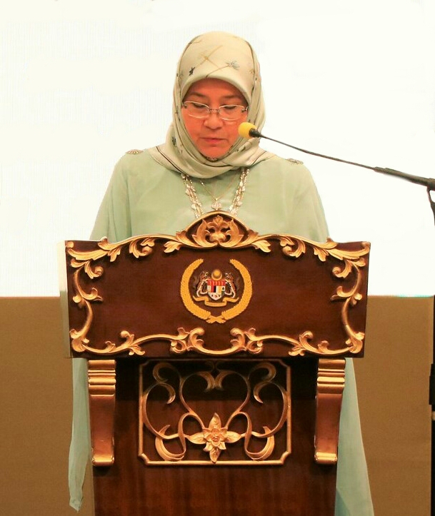 Her Majesty Tunku Azizah Aminah Maimunah Iskandariah, The Raja Permaisuri Agong of Malaysia, delivering speech at Pahang English Teaching Assistant Showcase on 14 October 2019